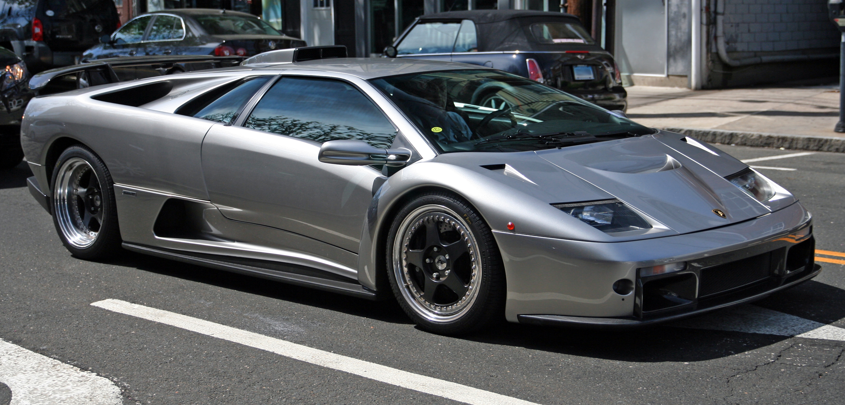 Front view of Lamborghini Diablo GT in Greenwich, CT.